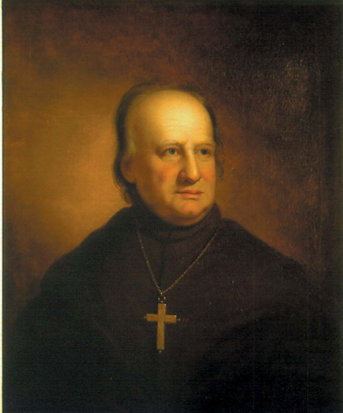 Portrait of America's first Bishop and Archbishop, John Carroll.